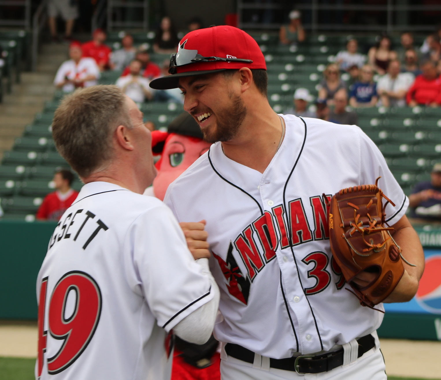 Mayor of Indianapolis Joe Hogsett and Indianapolis Indians pitcher Geoff Hartlieb before a 2019 game at Victory Field in Indianapolis.